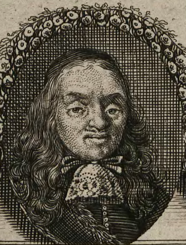 photo of Esaias Reusner